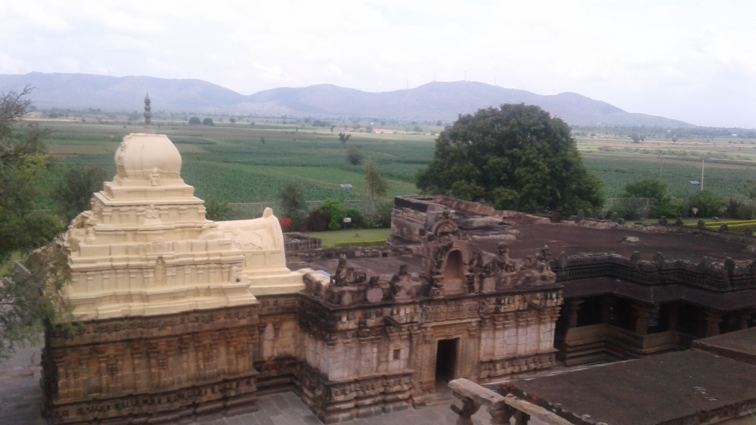 Kalleshvara temple (also spelt Kallesvara or Kalleshwara) (Kannada: ಕಲ್ಲೇಶ್ವರ ದೇವಸ್ಥಾನ, ಬಗಲಿ) is located in the town of Bagali (called Balgali in ancient inscriptions) near to Harpanahalli town in the Davangere district of Karnataka state, India. The construction of the temple spans the rule of two Kannada dynasties: the Rashtrakuta Dynasty during the mid-10th century, and the Western Chalukya Empire, during the reign of founding King Tailapa II (also called Ahava Malla) around 987 AD. (the dynasty is also called Later or Kalyani Chalukya).